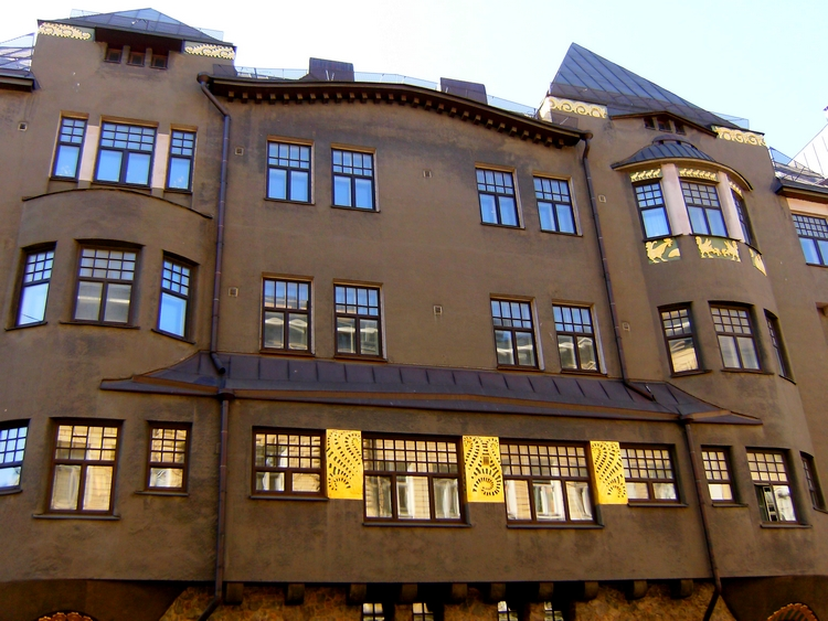 Liisankatu 16 (Vilho Penttilä, 1904), Helsinki, Finland